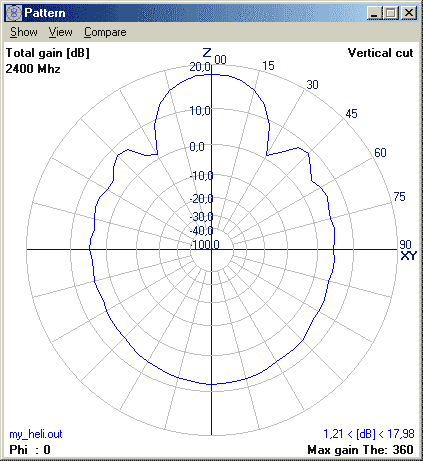 Helical antenna radiation pattern - NEC simulation output (Numerical Electromagnetics Code)